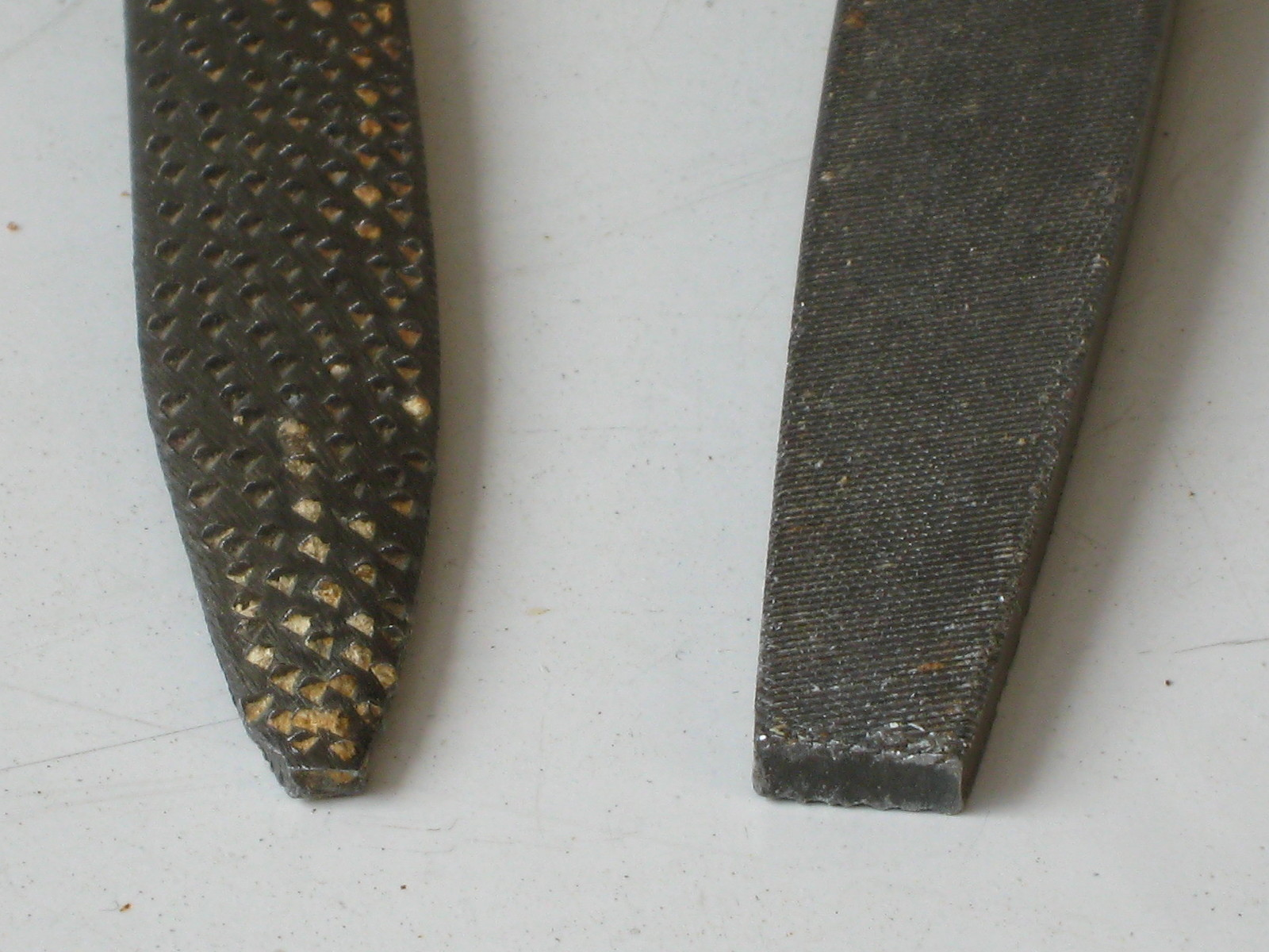 Rasp and file